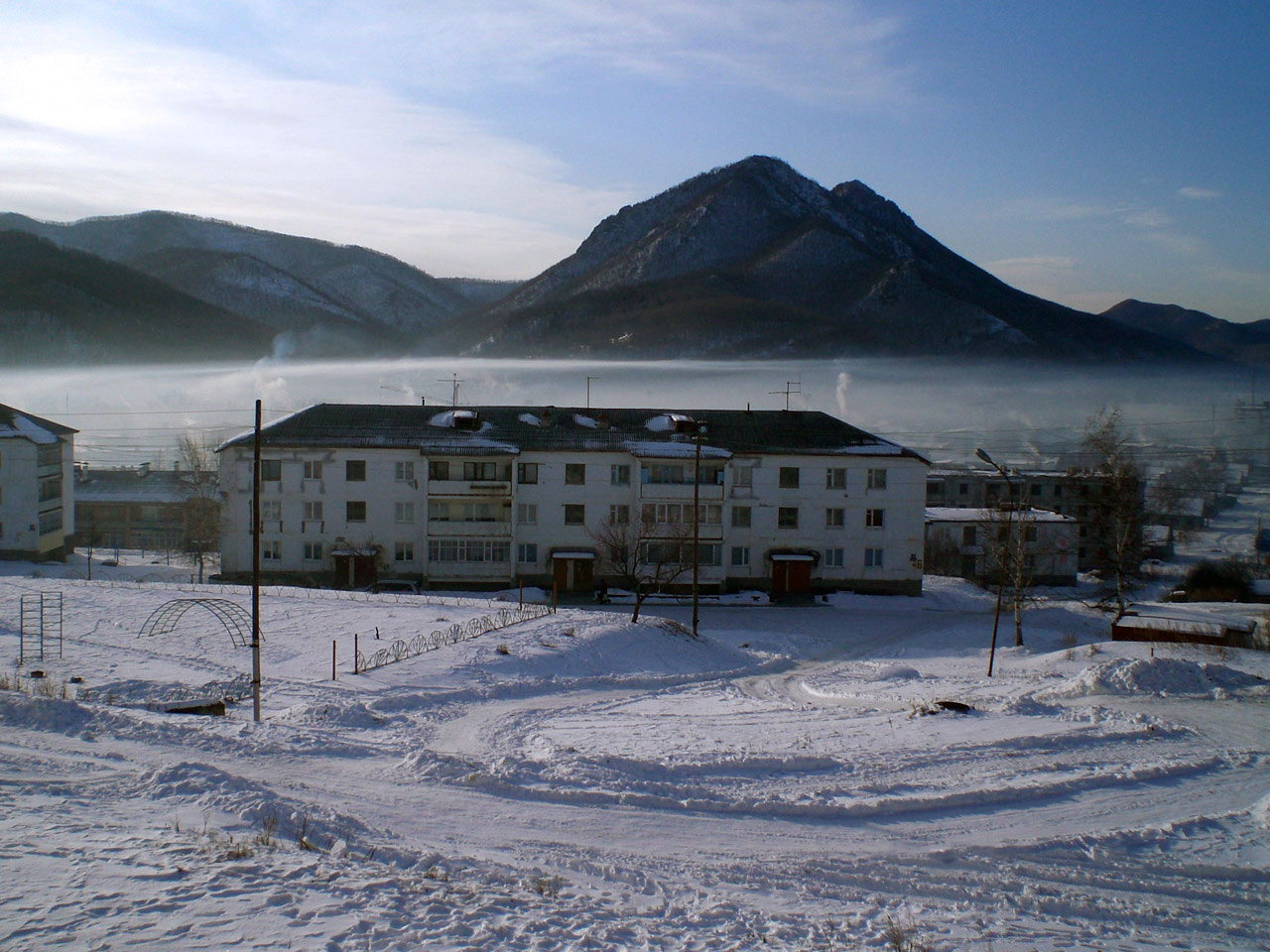 Dal'negorsk